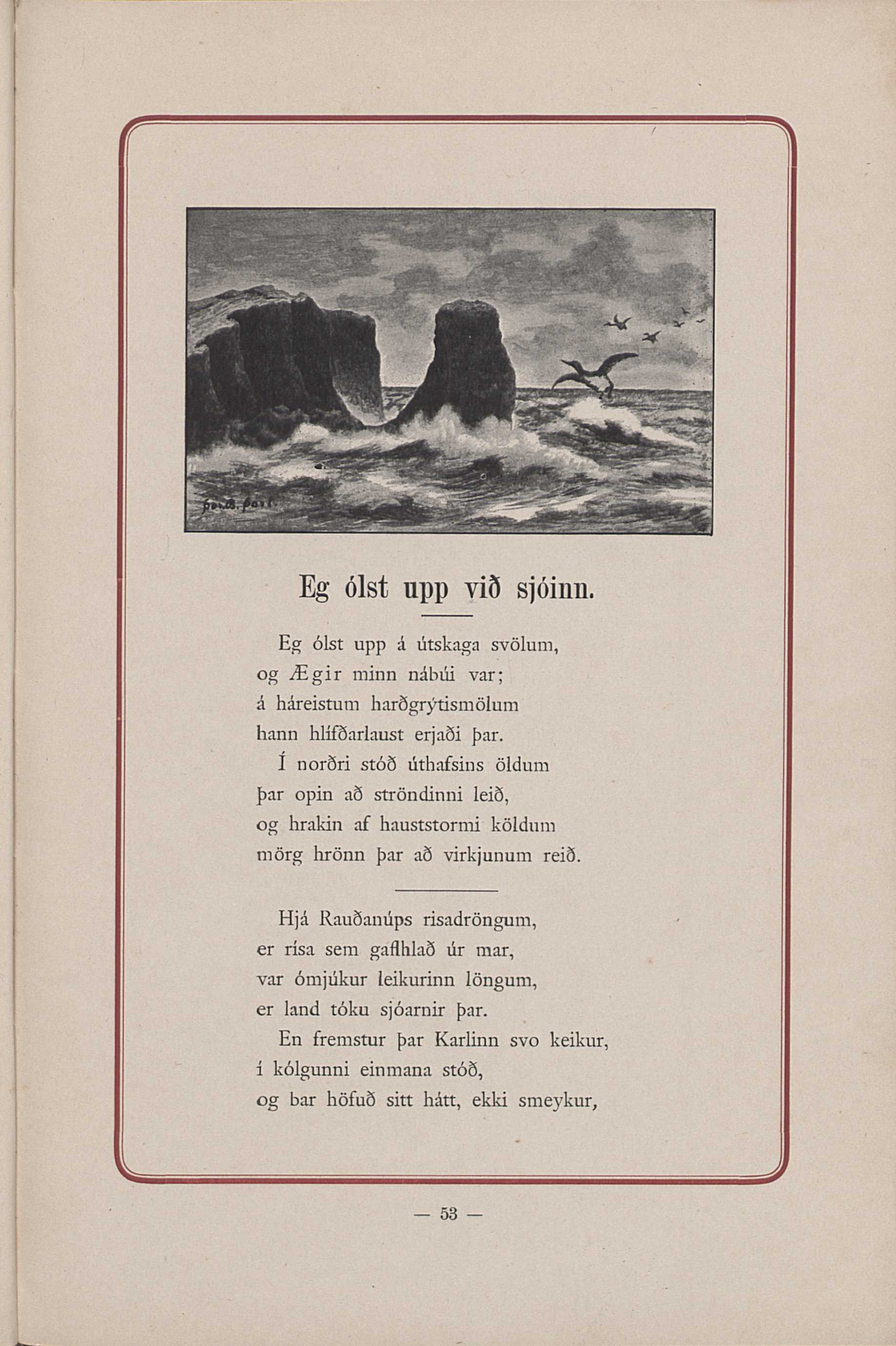 Poem by Jón Trausti illustrated by Þórarinn B. Þorláksson in the book Íslandsvísur published 1903. The poem with the title "I grow up by the ocean" is about Jón Trausti childhood environment in Melrakkaslétta the ocean bird cliff Rauðinúpur and the nearby Karlinn seen in the illustration.